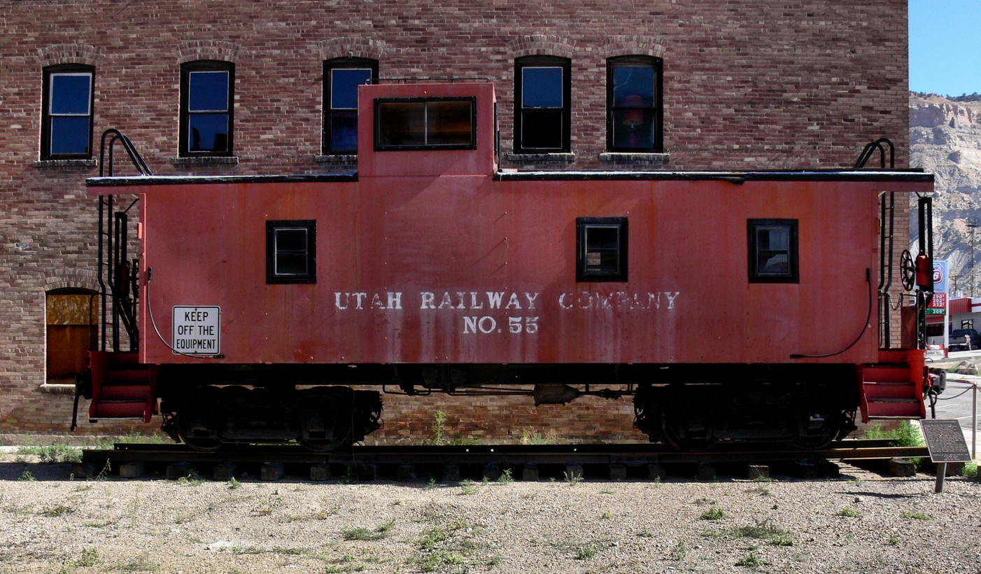 My Train Set